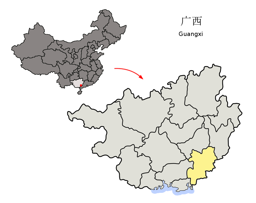 Location of Yulin Prefecture (yellow) within Guangxi Autonomous Region of China Map drawn in november 2007 using various sources, mainly : Guangxi Autonomous Region administrative regions GIS data: 1:1M, County level, 1990 Guangxi Counties map from